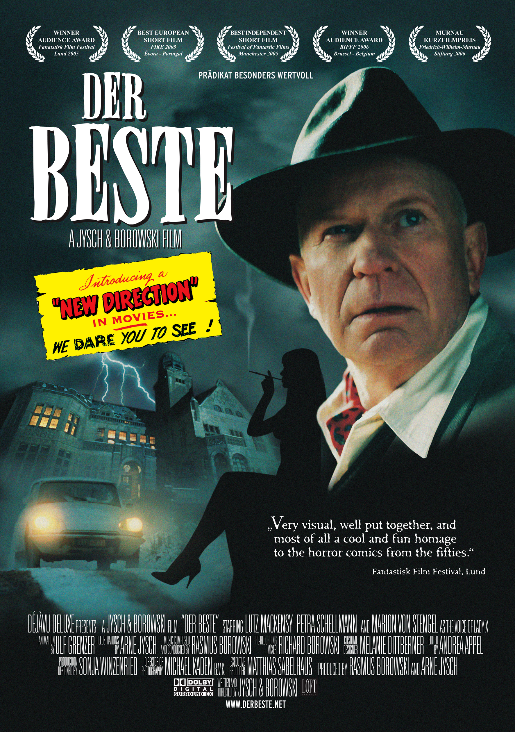 The Old Pro - Movieposter